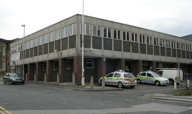 Police Station - Sessions House Yard